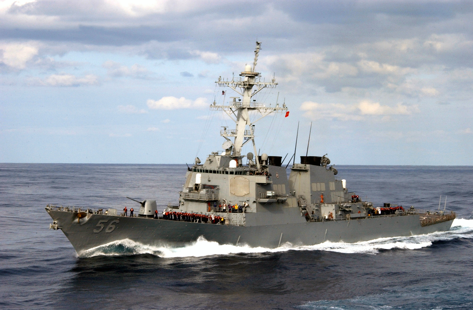 030126-N-1810F-002 At sea aboard USS Kitty Hawk (CV 63) Jan. 26, 2003 -- The guided missile destroyer USS John S. McCain (DDG 56) approaches the Kitty Hawk during a replenishment at sea (RAS). An RAS is the method by which ammunition fuel is transferred from one ship to another while at sea. The technique enables a fleet or naval formation to remain at sea for prolonged periods of time. Kitty Hawk is the Navy’s only permanently forward-deployed aircraft carrier and operates out of Yokosuka, Japan. U.S. Navy photo by Photographer’s Mate 3rd Class Todd Frantom. (RELEASED)